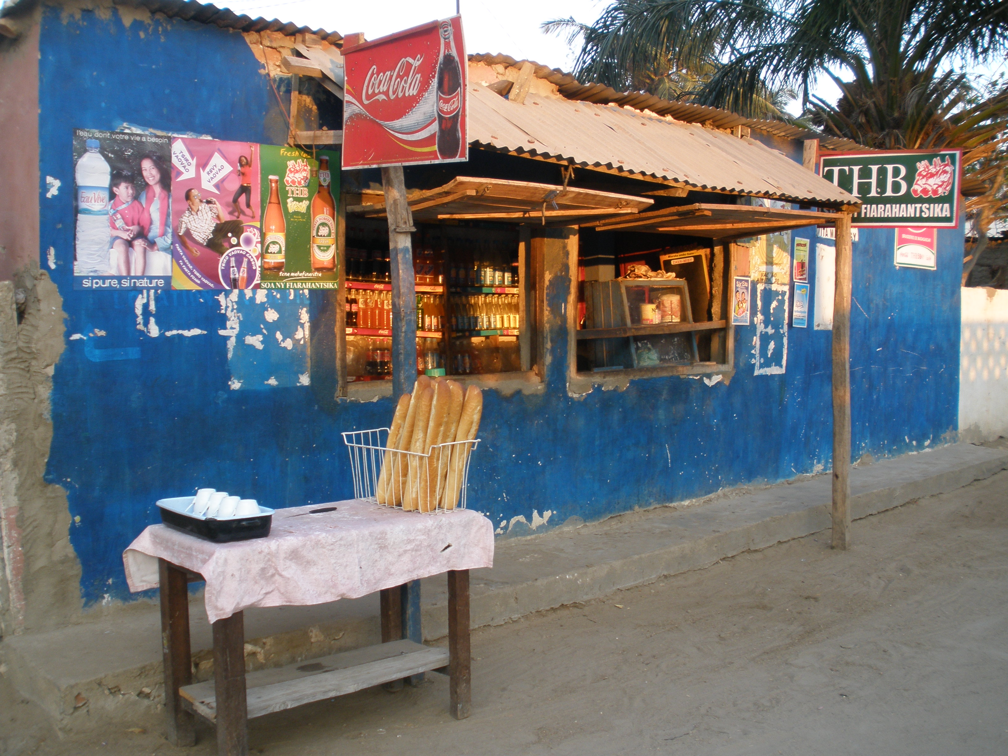 Shop selling THB beer and French bread in Toliara, Madagascar Vente de biere THB et baguettes devant une epicerie a Tulear, Madagascar